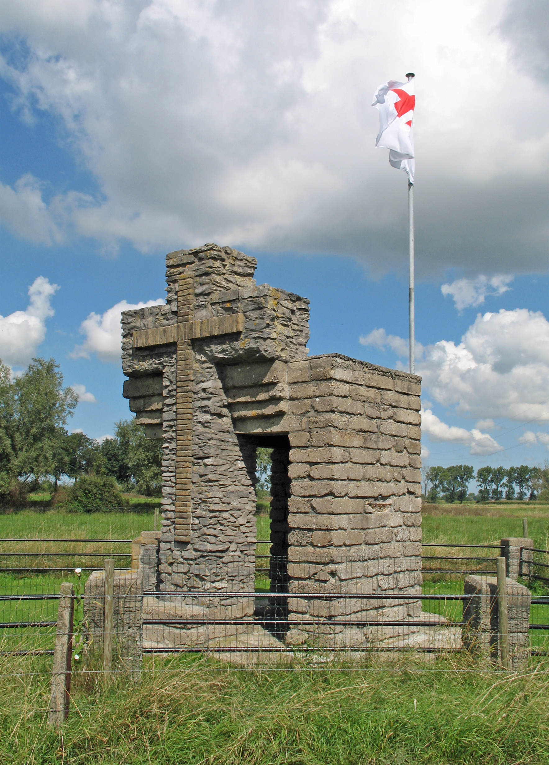 Zuidschote (Ypres, Belgium): Van Raemdonck Brothers memorial